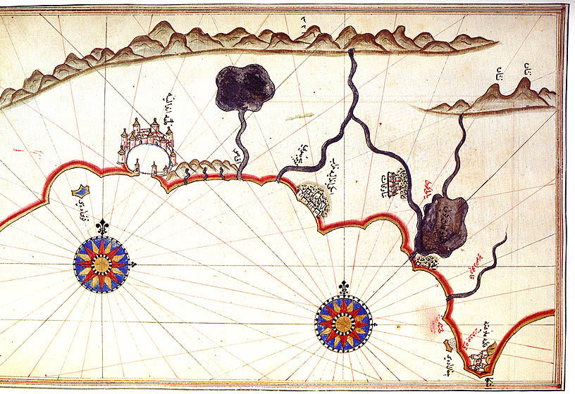 Antalya on the Kitab-Ä± Bahriye (Book of Navigation) of Piri Reis